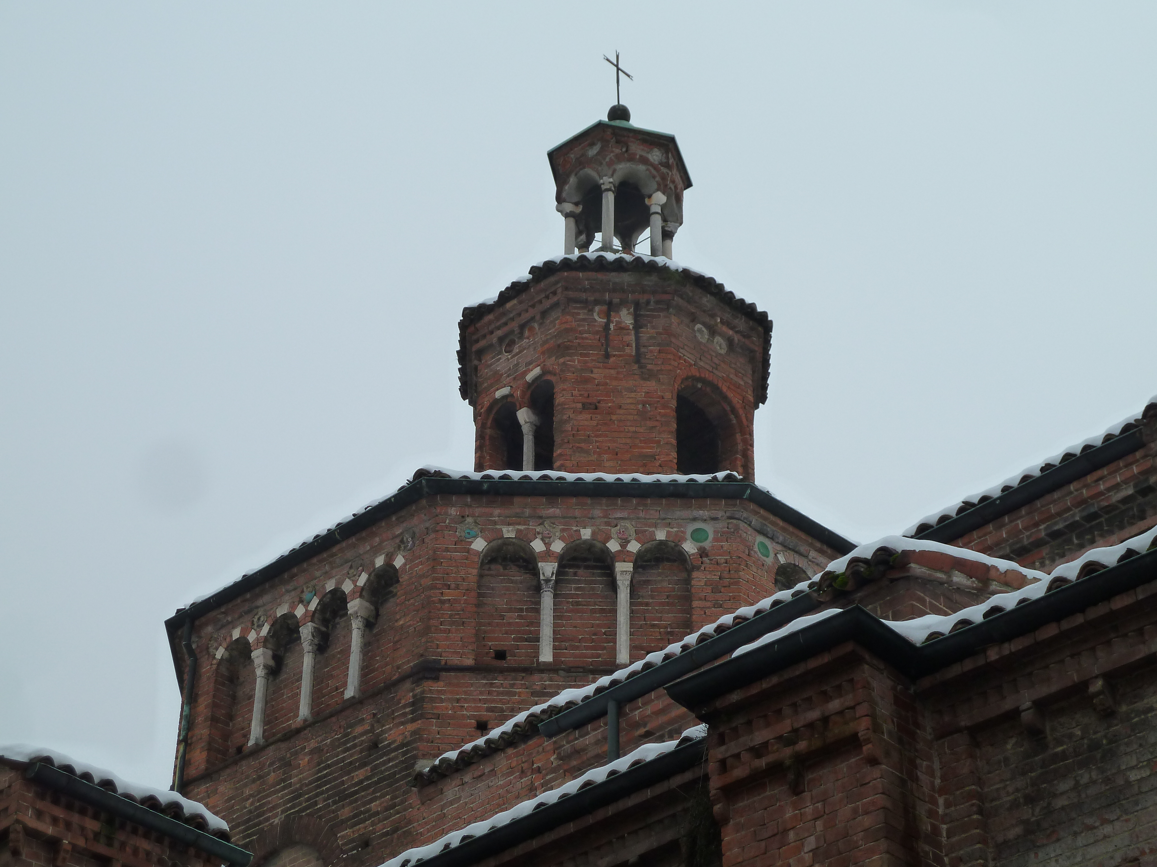 Church of San Teodoro (Pavia, Lombardy). Transept cupola (northwest side).